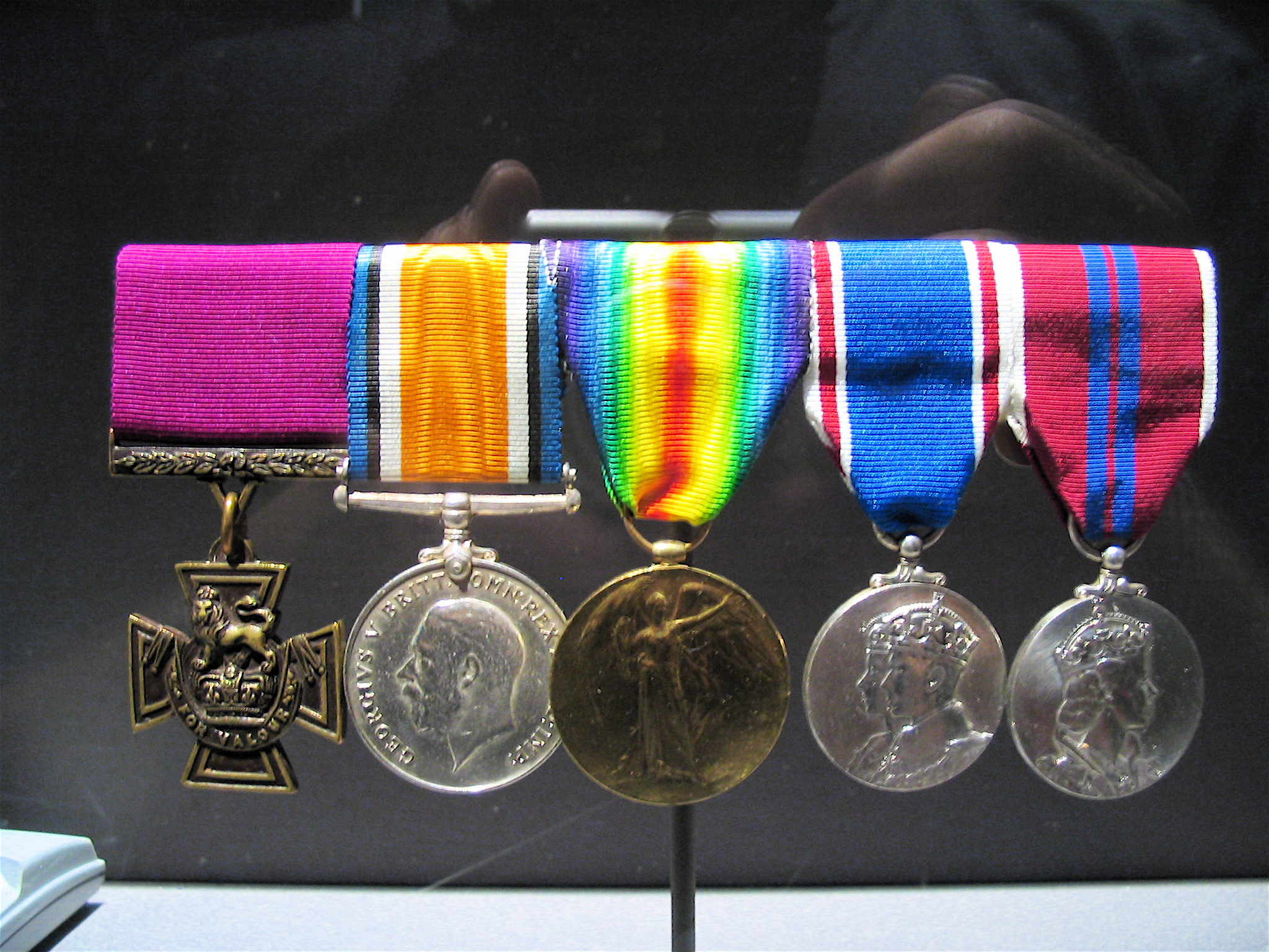 Filip Konowal's medal set on permanent exhibition in the Canadian War Museum. From the left: the Victoria Cross, British War Medal (1914–1920), Victory Medal (1914–1919), George VI Coronation Medal (1937), Elizabeth II Coronation Medal (1953).